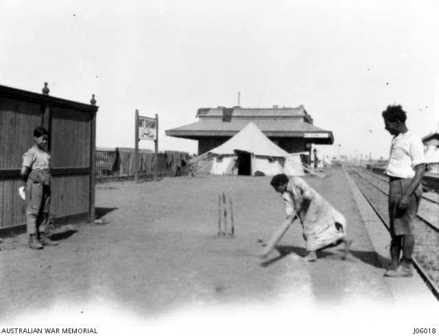 NATIVE CHILDREN AND THEIR FATHER PLAYING CRICKET ON THE MIT GHAMR RAILWAY STATION, EGYPT. THE FATHER LOST HIS LEG WHILST WORKING WITH THE EGYPTIAN LABOUR CORPS IN SINAI. (DONATED BY COLONEL A.J. MILLS, DSO., VD.)